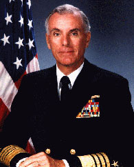 Admiral Harold W. Gehman, Jr., USNSupreme Allied Commander, Atlantic and Commander-in-Chief of the U.S. Joint Forces Command